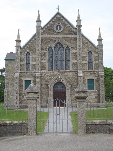 Scorrier Chapel, Scorrier, Cornwall, seen from the southwest